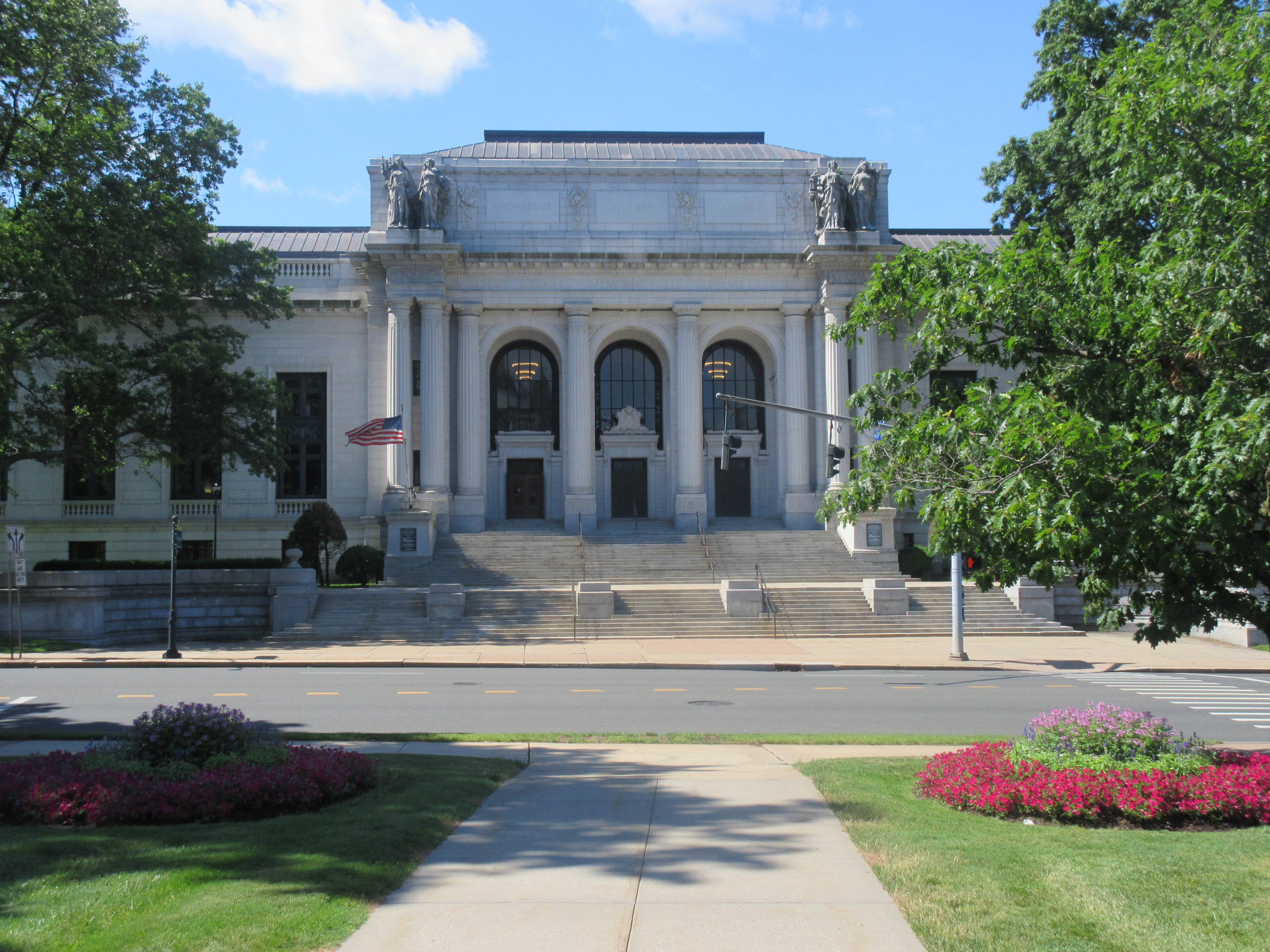 This facility houses the State Library, Archives and the Museum of Connecticut History.